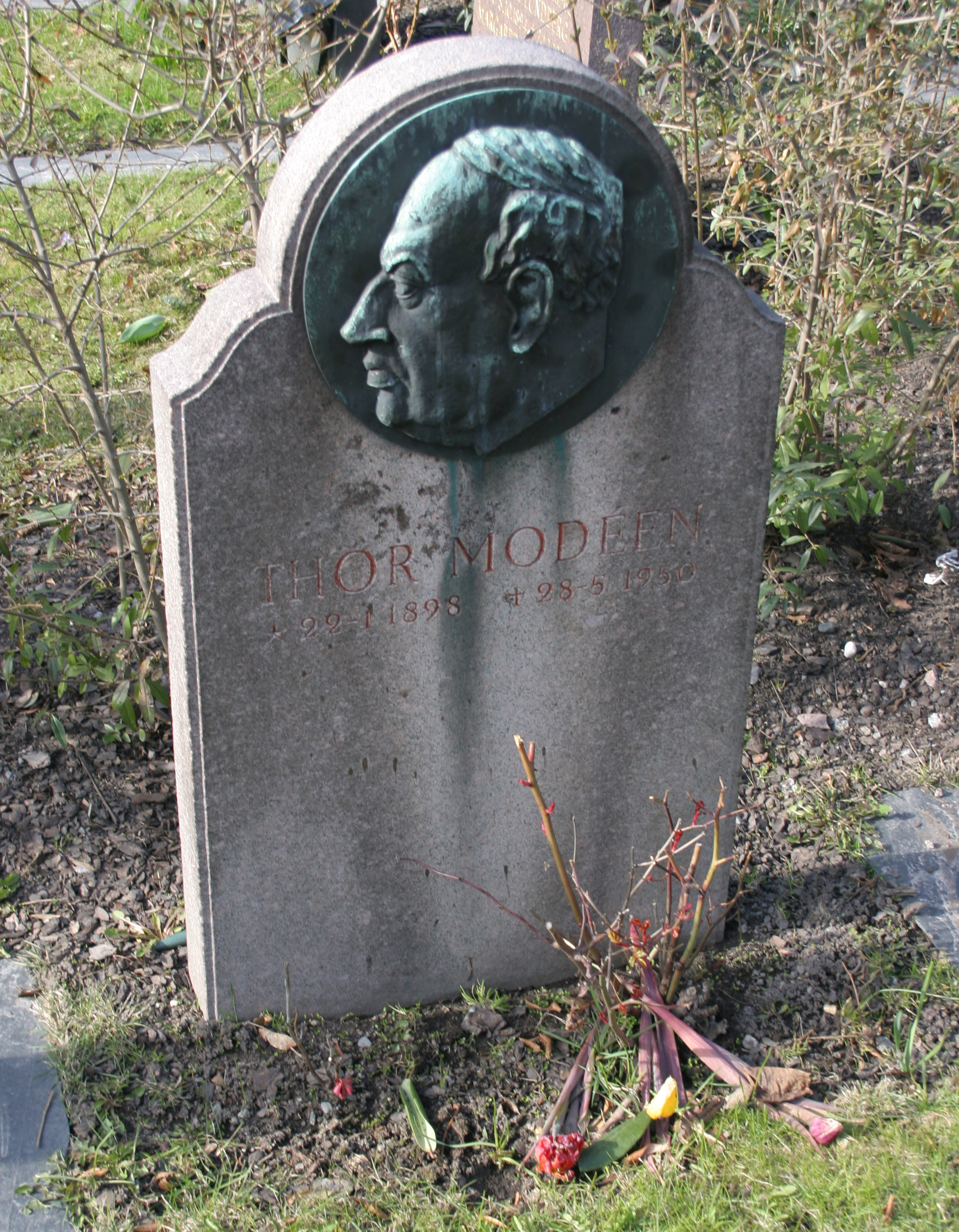 Gravestone of Thor Modéen, swedish actor